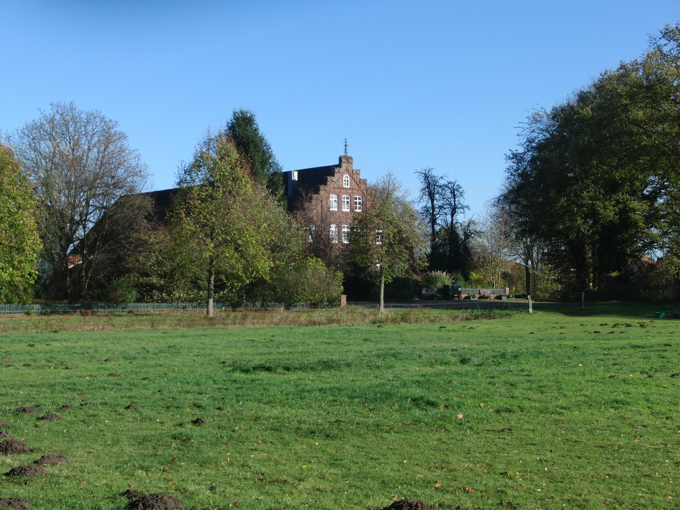 view of Sangenstedt